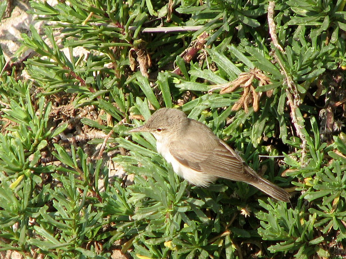 Olivaceous Warbler. The photo was taken in northern Israel, in Akko.